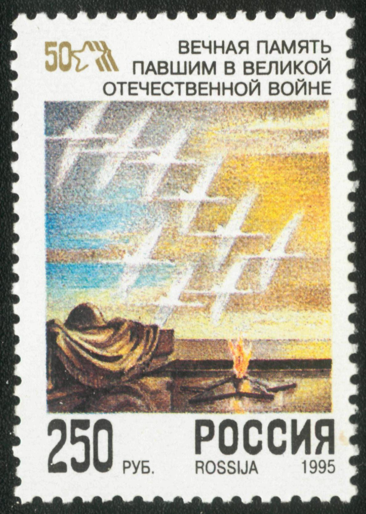 Stamp Russia 1995 50 years of Victory, 1995, 250 r., CPA #20?.